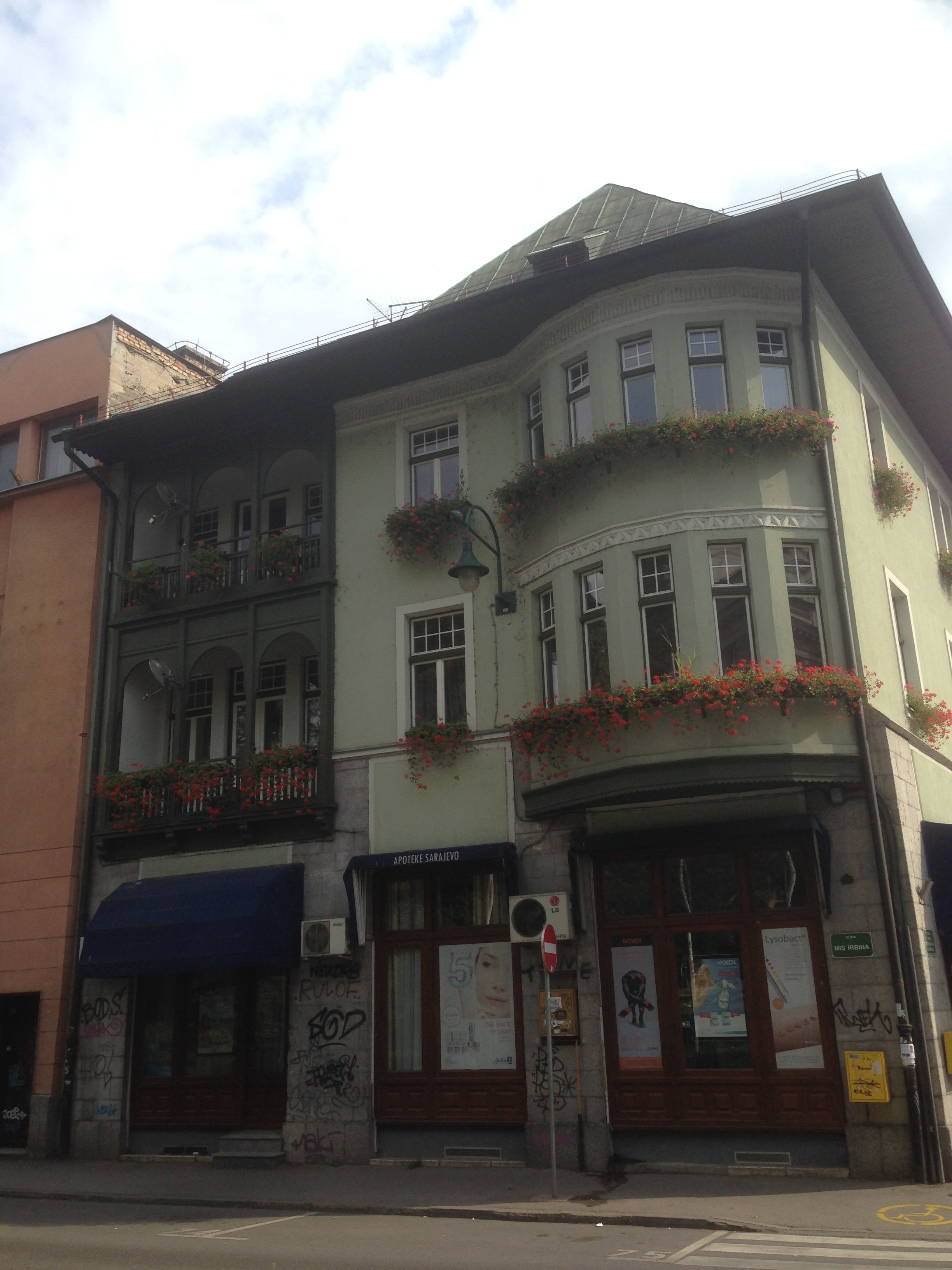 Sarajevo - vakuf building